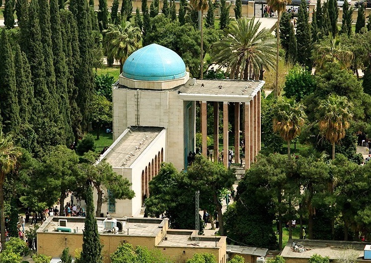 The image of tomb of the Persian poet Sadi of Shiraz (Saadi Shirazi)